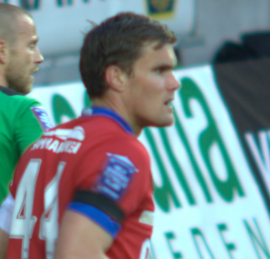 Örgryte IS player David Leinar.